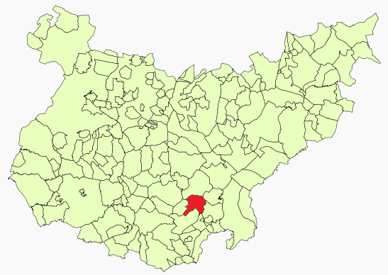 Higuera de Llerena